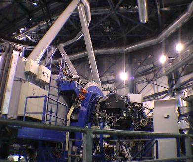 VIMOS, the Visible Multi-Object Spectrograph, delivers visible images and spectra of up to 1,000 galaxies at a time in a 14 x 14 arcmin field of view.